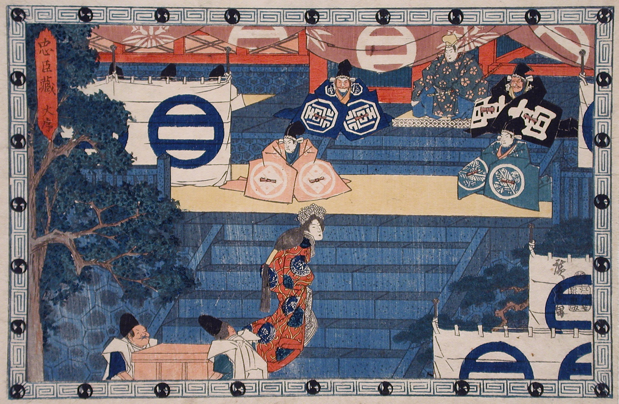 Japan, circa 1835-1839 Series: The Storehouse of Loyal Retainers Prints; woodcuts Color woodblock print Image: 9 3/16 x 14 1/8 in. (23.3 x 36.0 cm); Sheet: 9 7/8 x 14 9/16 in. (25.1 x 37.2 cm) Gift of Dr. Harvey Eagleson (M.66.35.46) Japanese Art